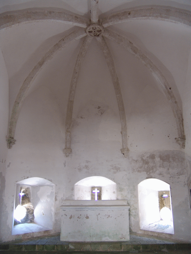 Inside of Nossa Senhora do Baluarte Chapel, in São Sebastião Fortres, Mozambique Island